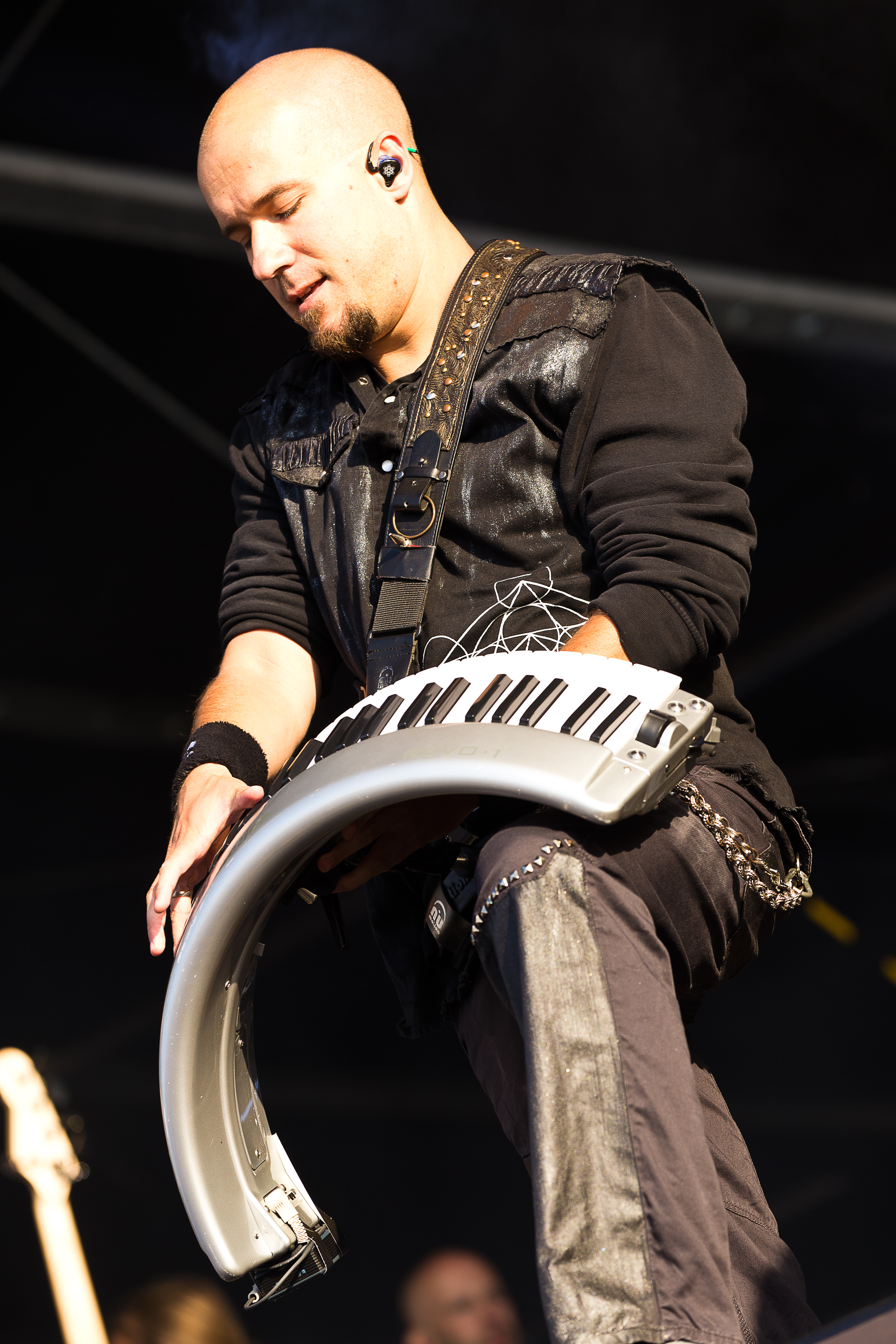 The Dutch symphonic metal band Epica at the Rockharz Open Air 2015 in Ballenstedt/Germany.